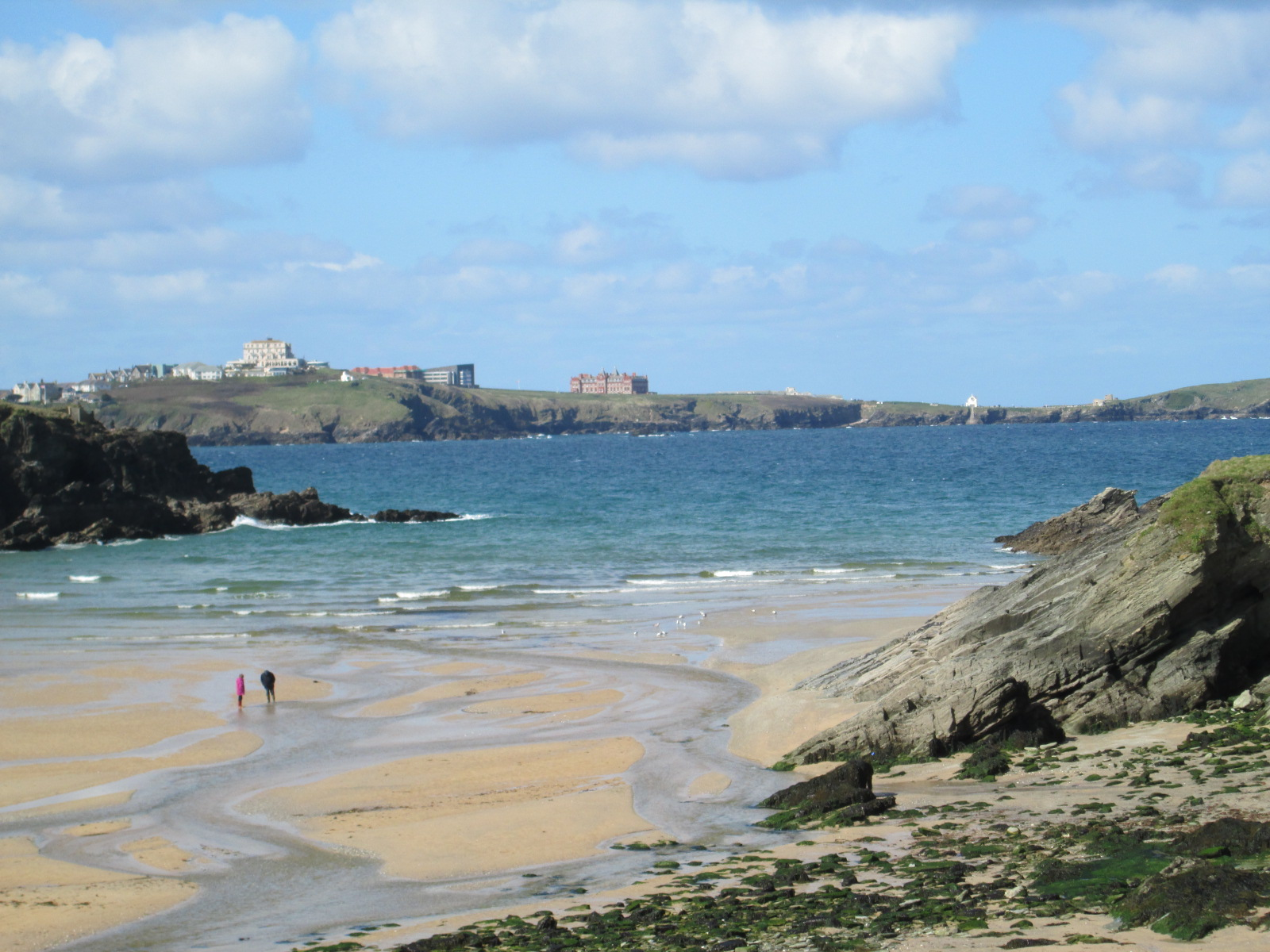 Porth Beach and the coast beyond, seen from Trevelgue Head.